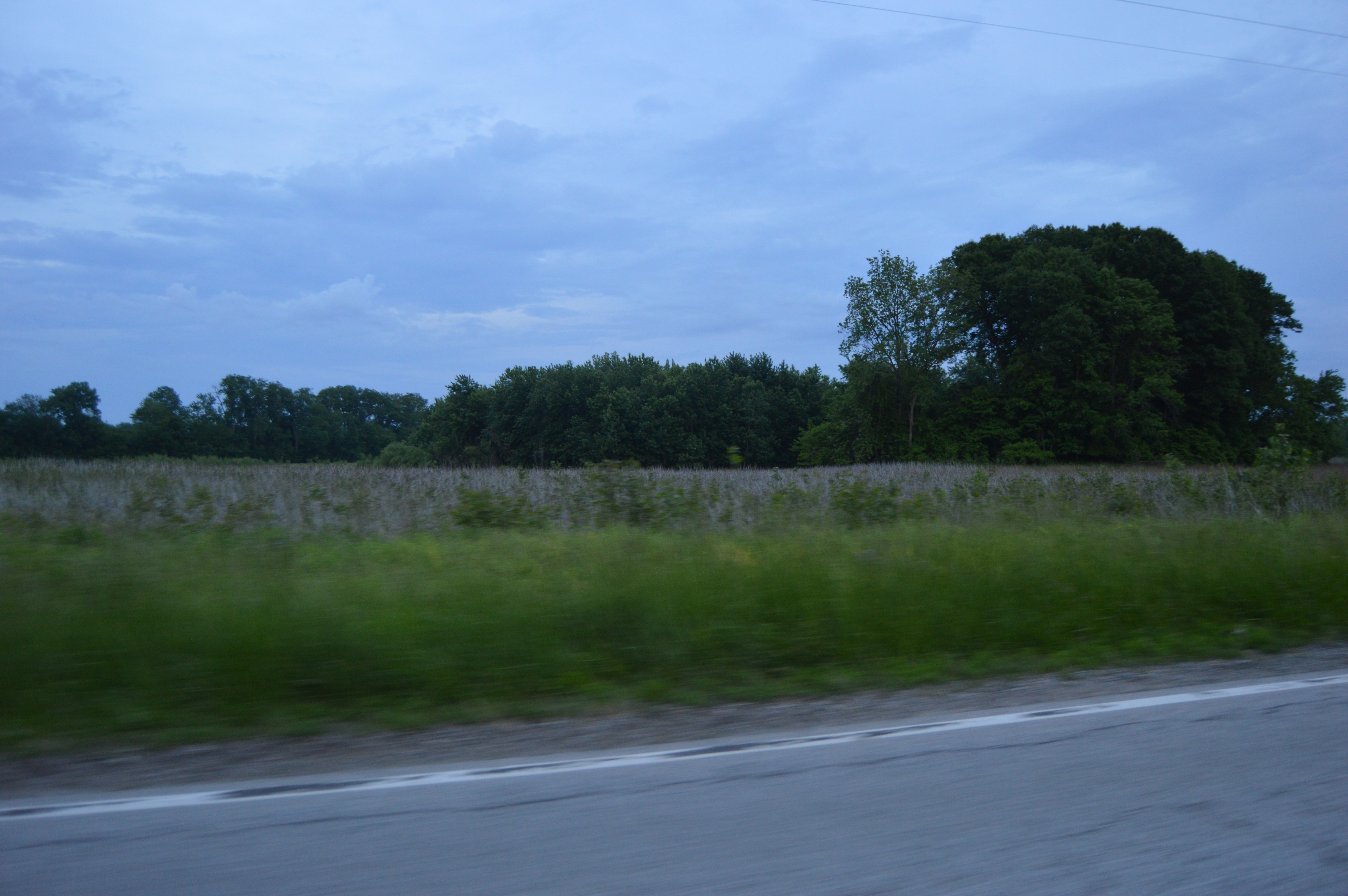 Fields on the western side of Illinois Route 100 north of Kampsville in Carlin Precinct, Calhoun County, Illinois, United States. These fields are part of the village associated with the Kamp Mound Site; as an important archaeological site, it is listed on the National Register of Historic Places.